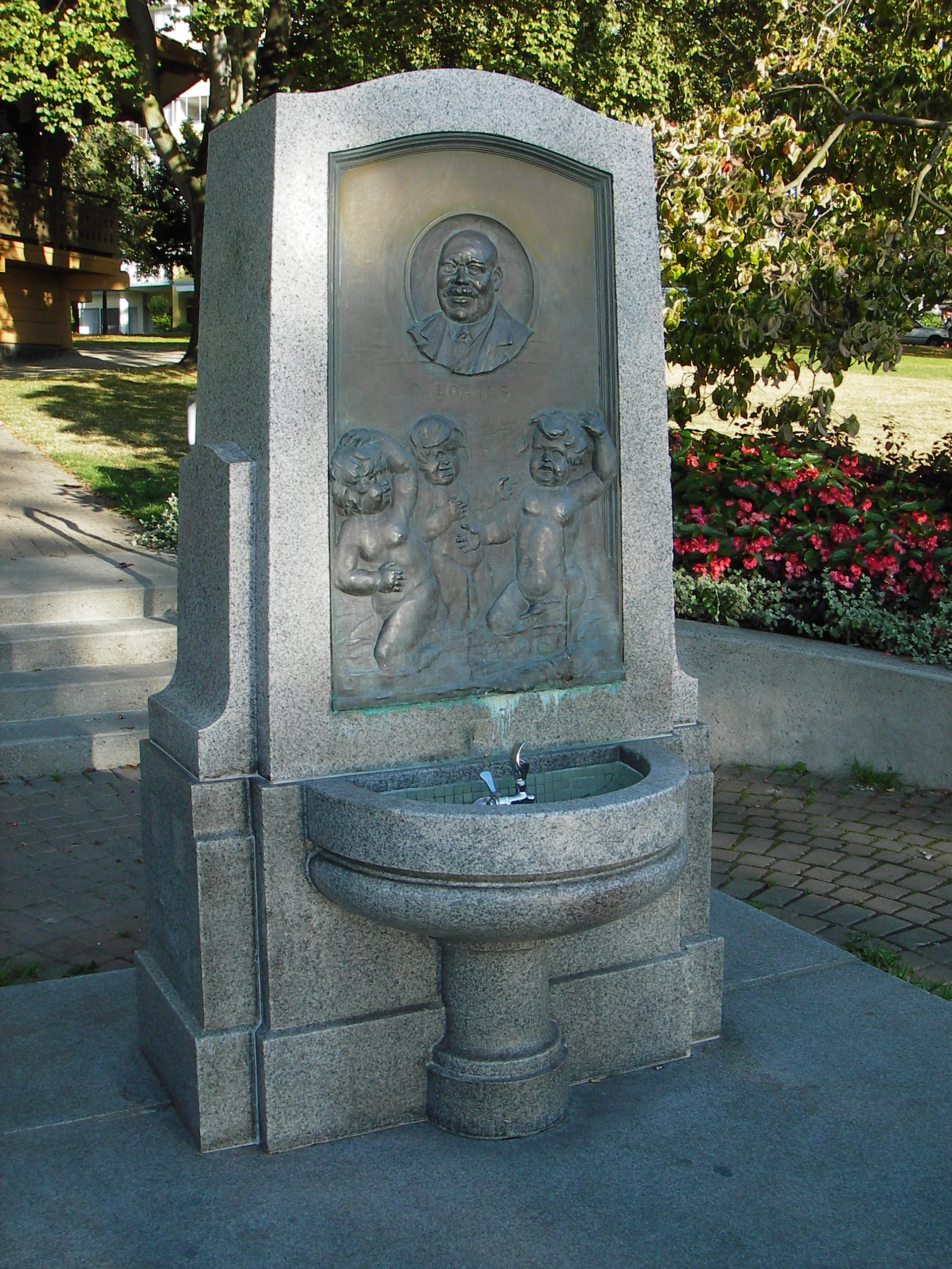 Joe Fortes Memorial Drinking Fountain in Alexandra Park in the West End of Vancouver, British Columbia, Canada. Created in 1927 by sculptor Charles Marega. Some of his work can be found at City Hall, Lions Gate Bridge, Marine Building, etc.